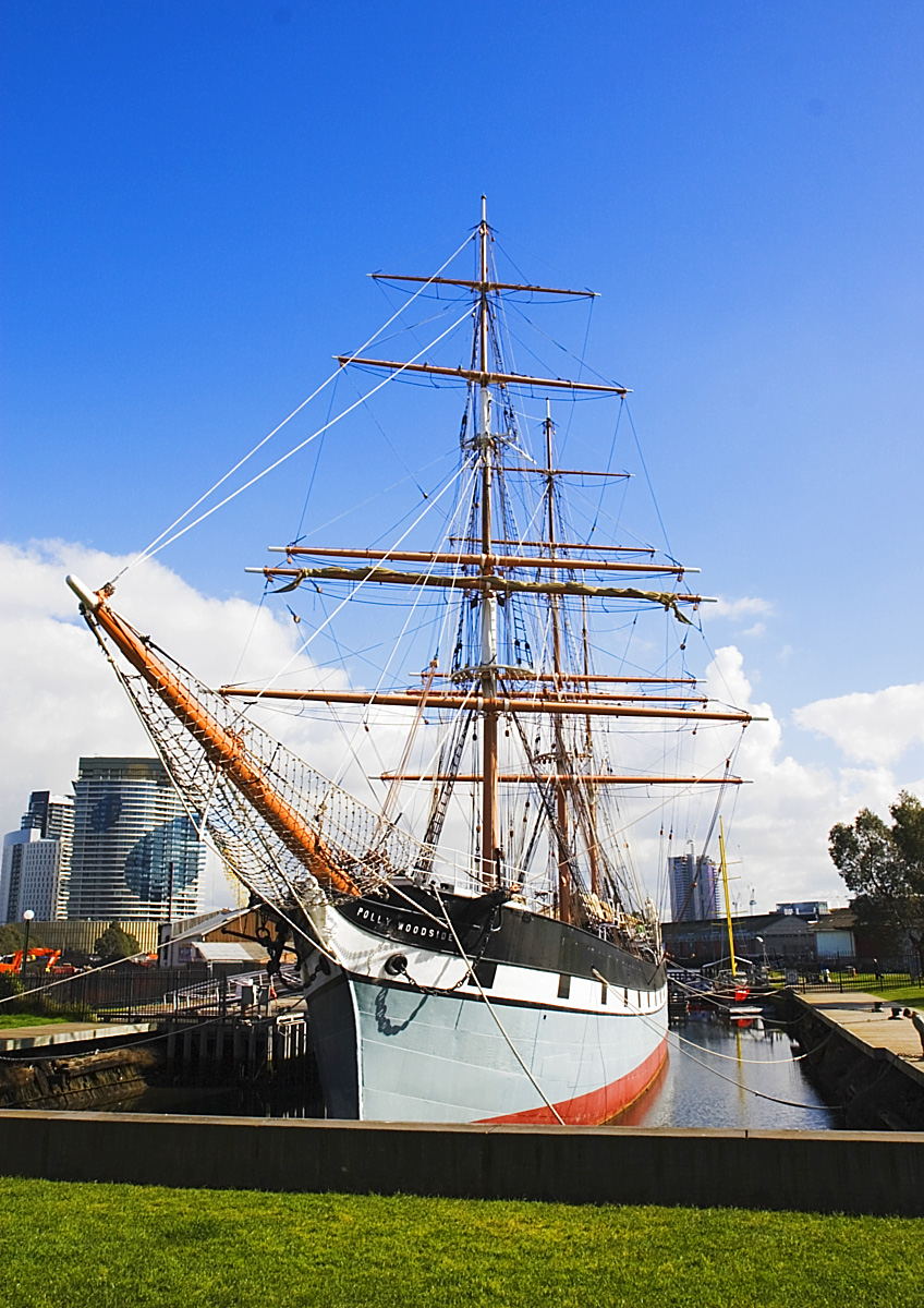 Polly Woodside, at the Melbourne Maritime Museum, taken by myself on 12AUG2006 Mike Funnell 03:45, 15 August 2006 (UTC)